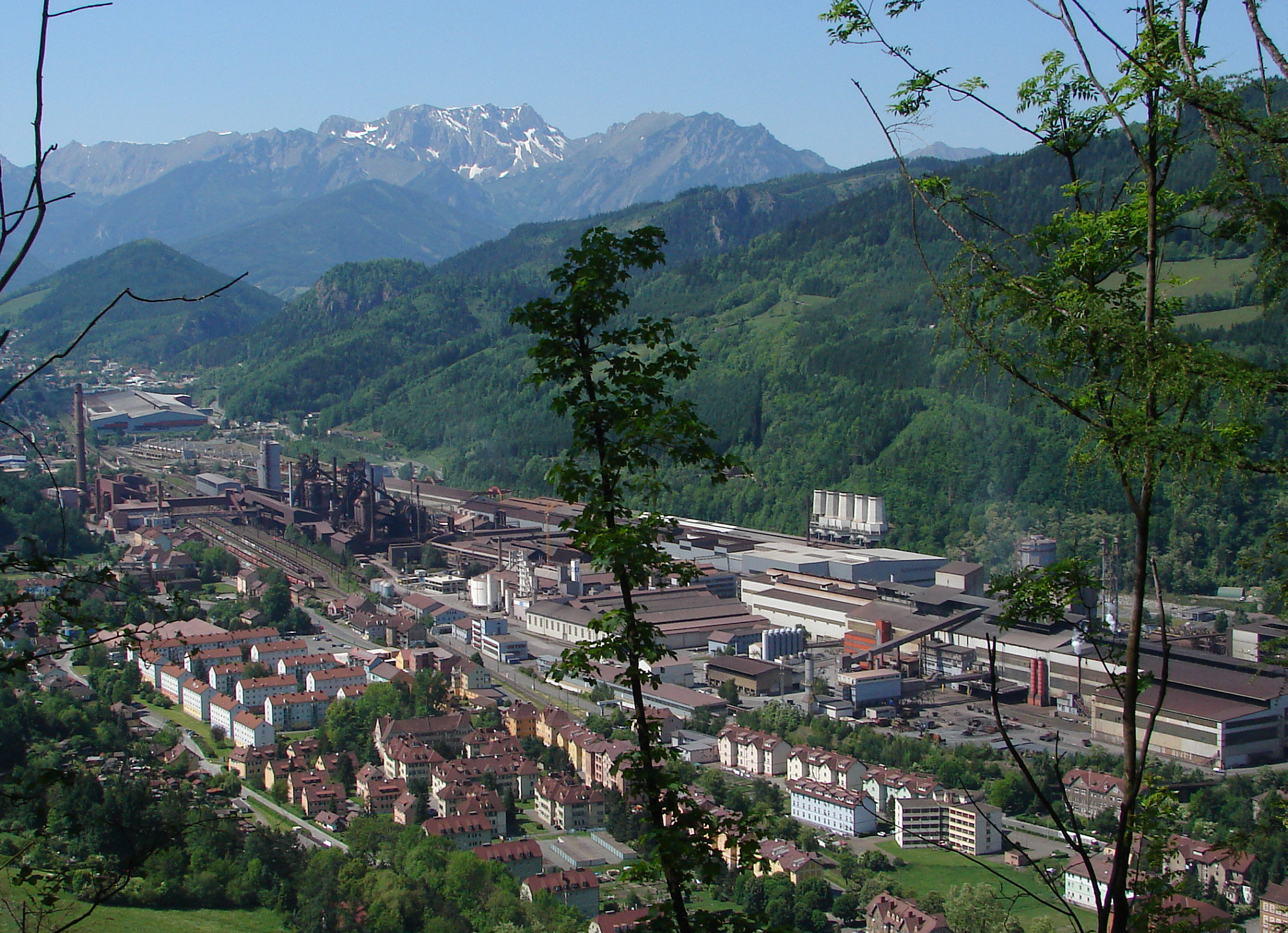 The iron and steel works of Donawitz near Leoben in Styria, Austria